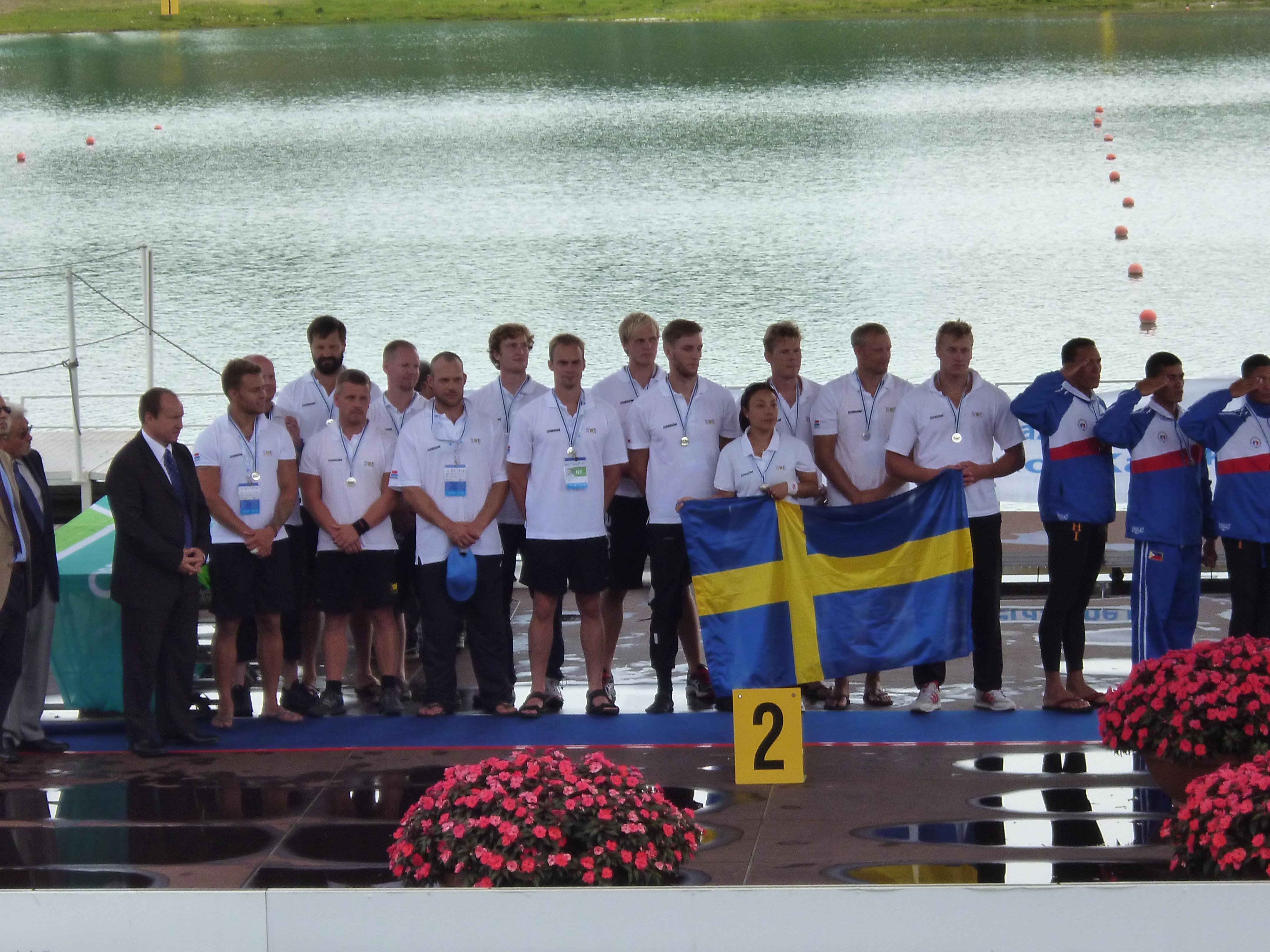 ICF World Dragon Boat Racing Championships 2012 in Milan. Senior Men Small Boat 2000 meter medal ceremony.